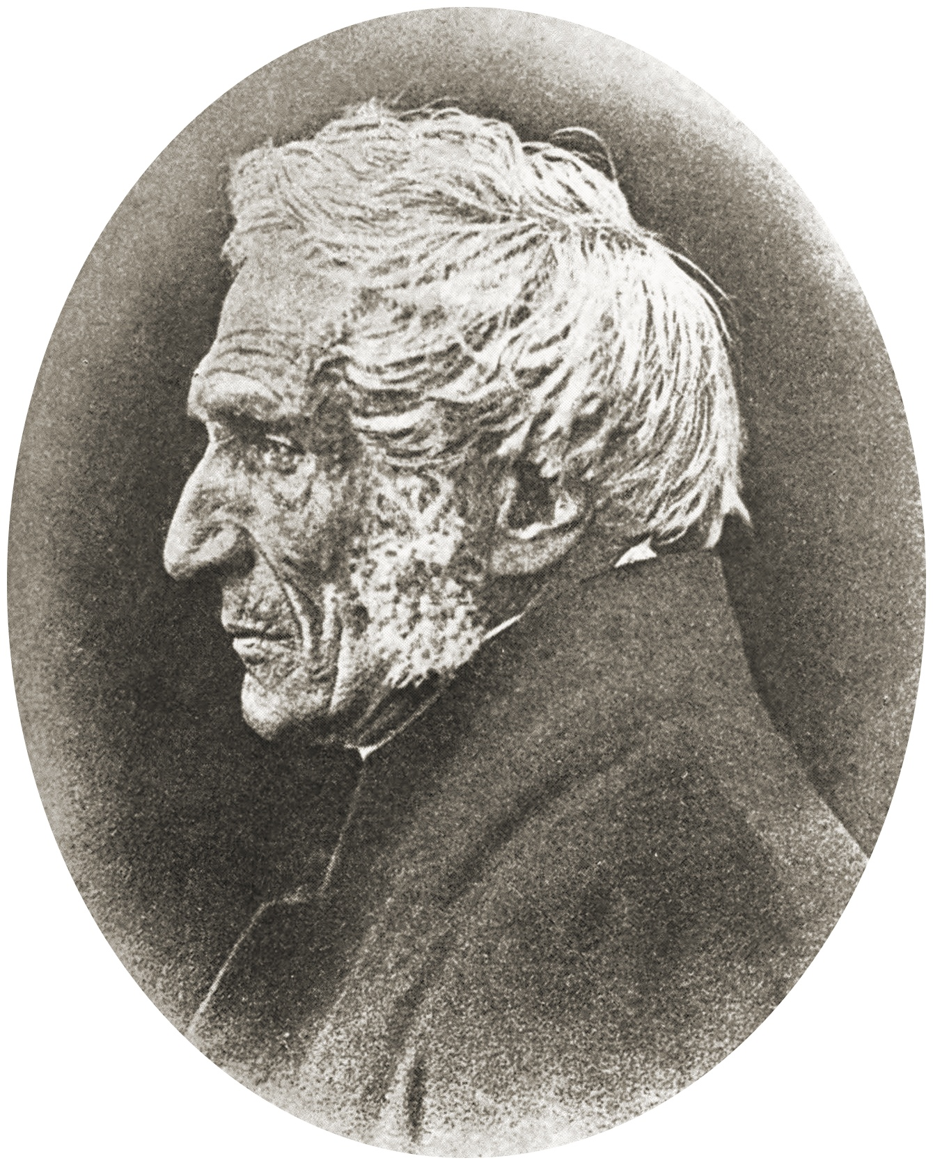 George Jehoshaphat Mountain Title: McGill and its story, 1821-1921 Creator: Macmillan, Cyrus, 1880-1953 Publisher: London : John Lane ; New York : John Lane ; Toronto : Canadian Branch Date1921 Possible Copyright Status: NOT_IN_COPYRIGHT